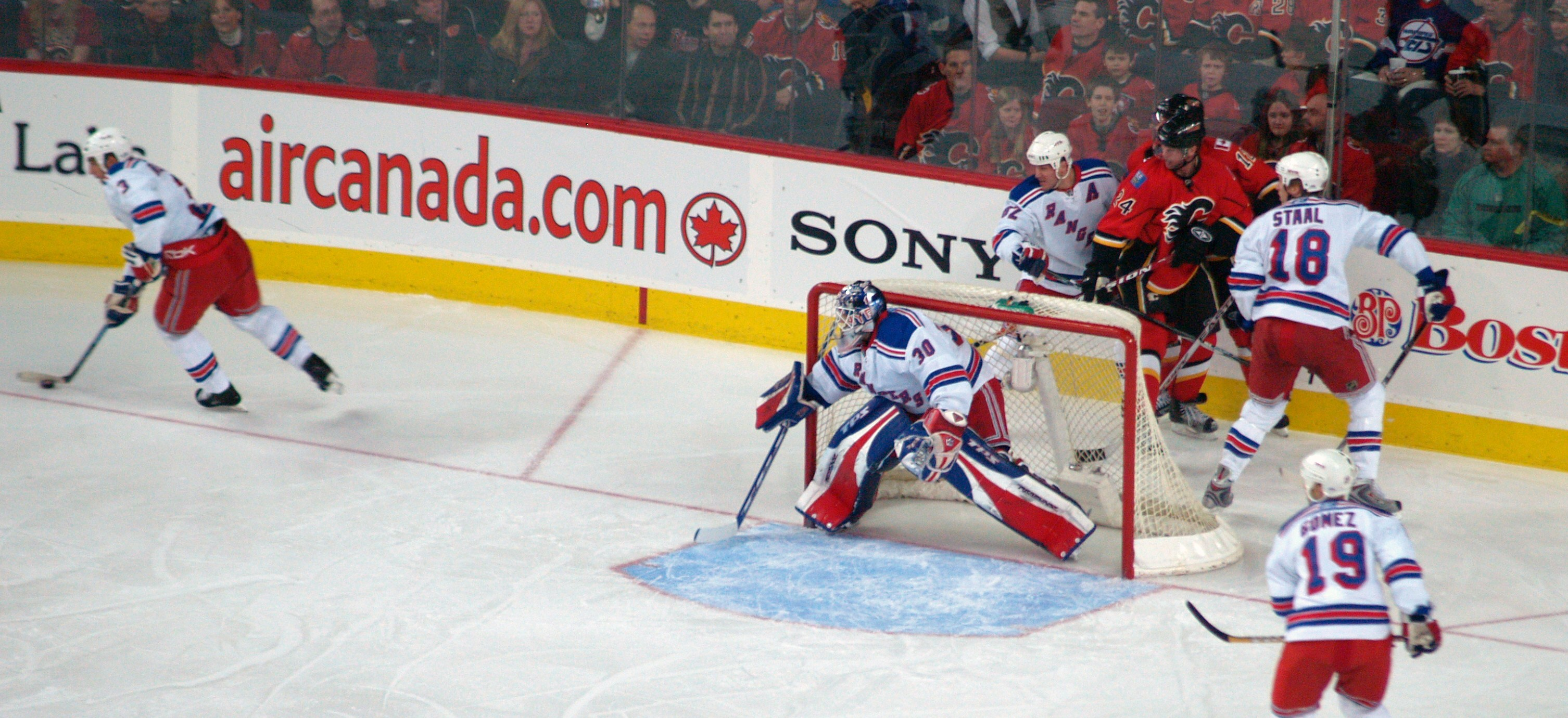 Action during a New York Rangers at Calgary Flames hockey game. The Rangers players are Scott Gomez, Marc Staal, Henrik Lundqvist, Michael Rozsival, & Martin Straka. The Flames players are Jarome Iginla & Craig Conroy.